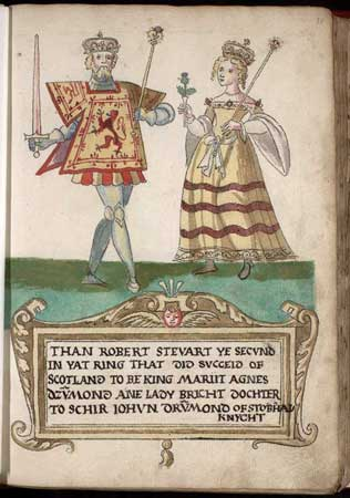 Robert III and his wife Annabella Drummond